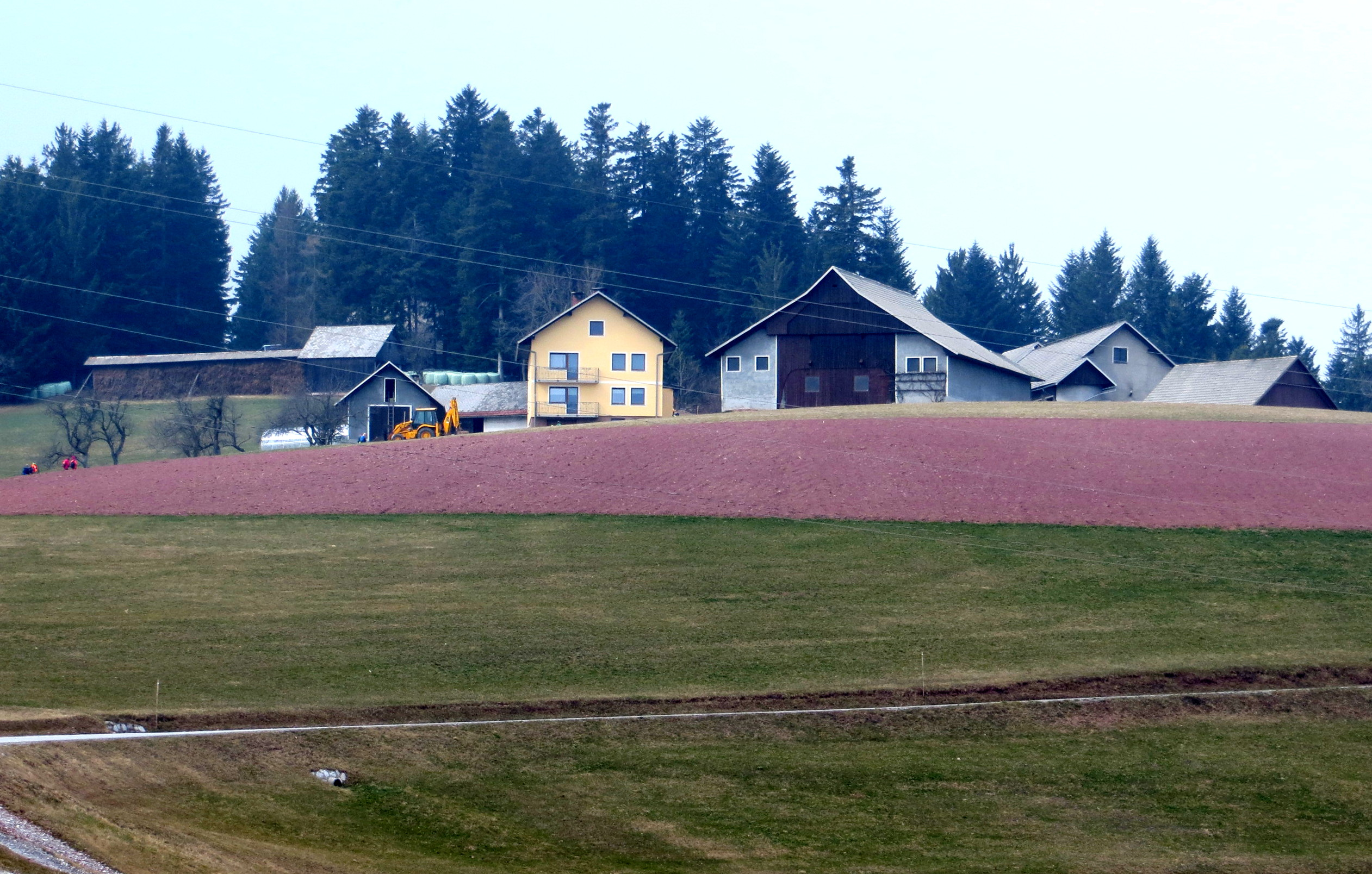 Hamlet of Javorč in Žirovski Vrh Svetega Urbana, Municipality of Gorenja Vas–Poljane, Slovenia